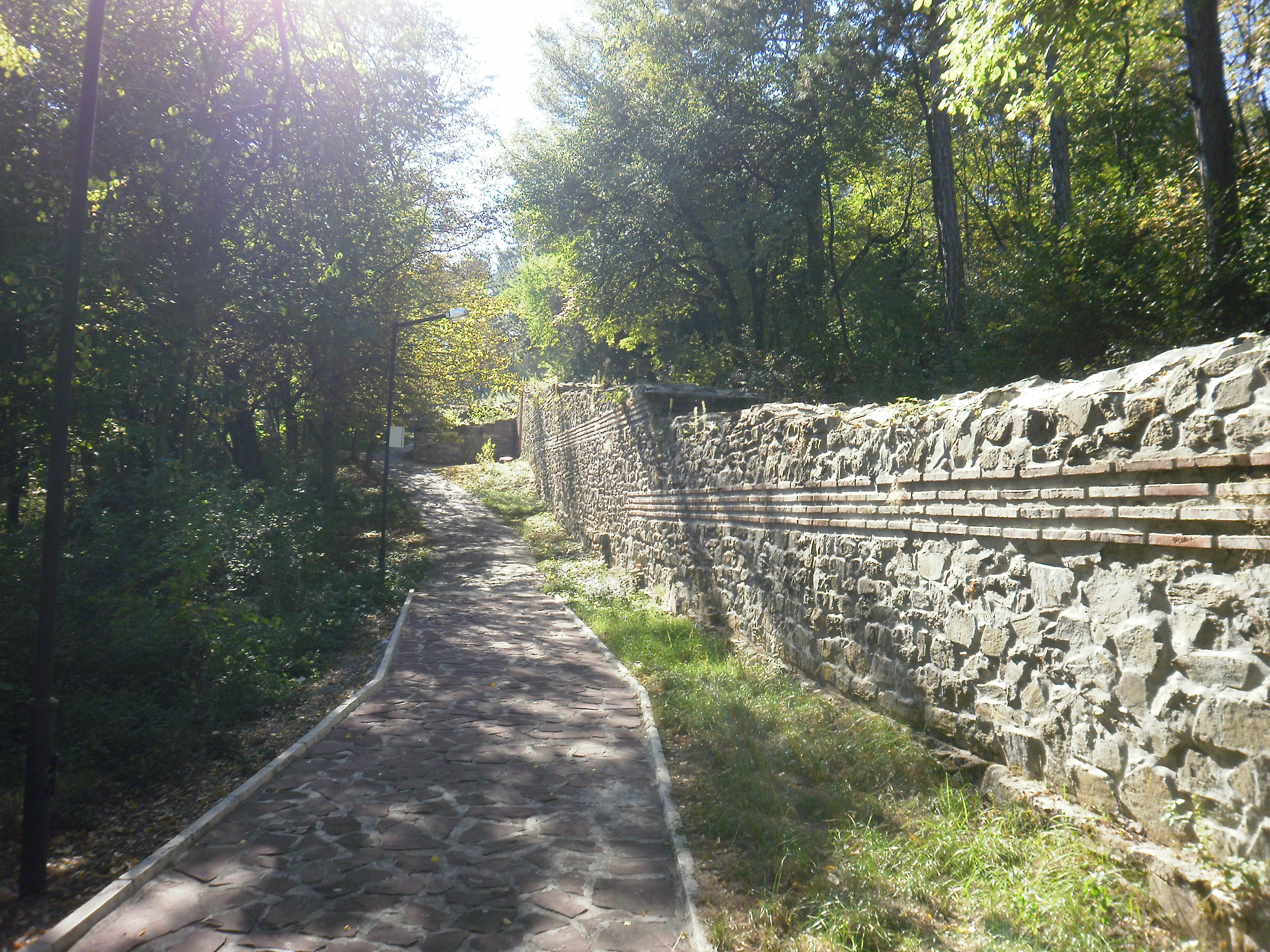 Late Ancient and Medieval Fortres "Hisarlaka", Kyustendil, Bulgaria.